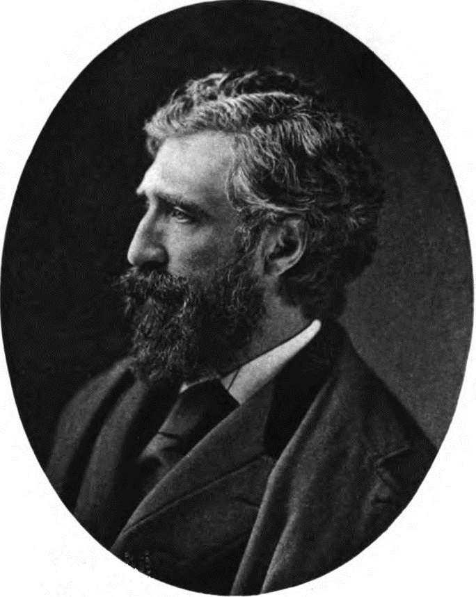 Charles Dudley Warner.